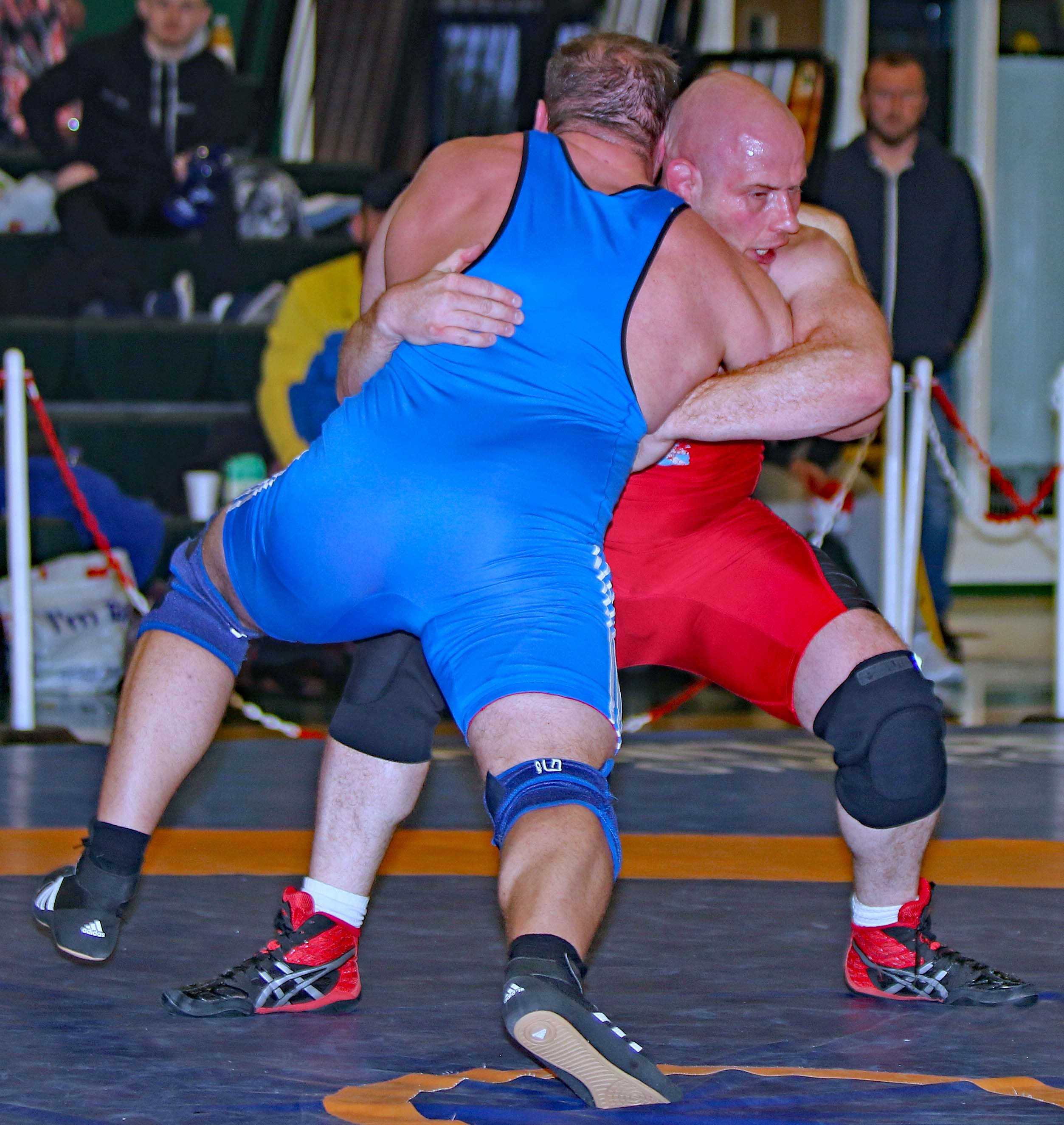 Wrestlers